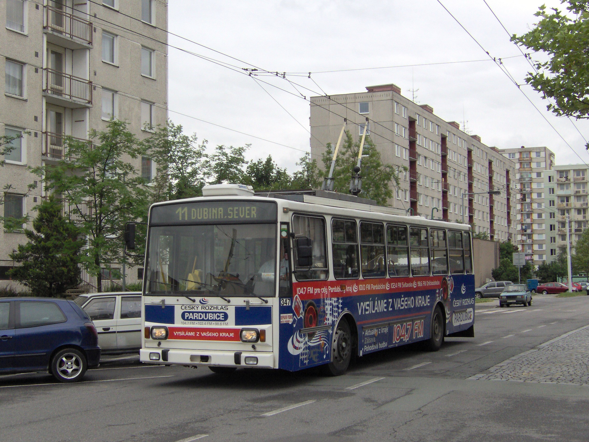 Škoda 14Tr trolleybus, Pardubice, Czech Republic